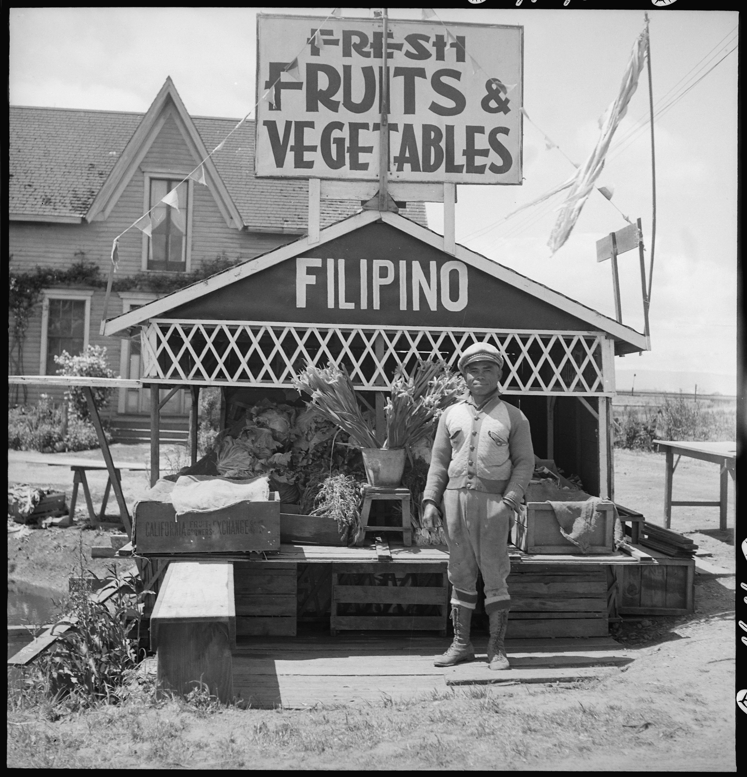 Scope and content: The full caption for this photograph reads: San Lorenzo, California. Fruit and vegetable stand on highway operated by Philipino. This year he is able to use his nationality in California as an advertisement for trade.